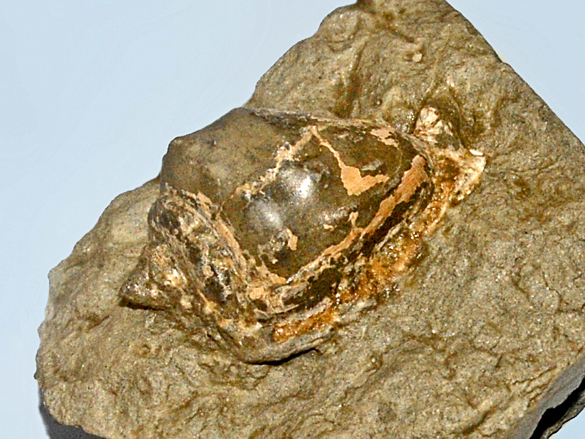 Fossil shell of Cassis mammillaris, on display at the Museo Paleontologico Giulio Maini, Ovada